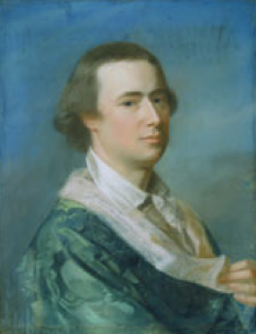 Portrait of Joseph Barrell, about 1767, pastel on cream laid paper, 23 3/8 x 18 1/8 in. (59.4 x 46 cm), Worcester Art Museum.